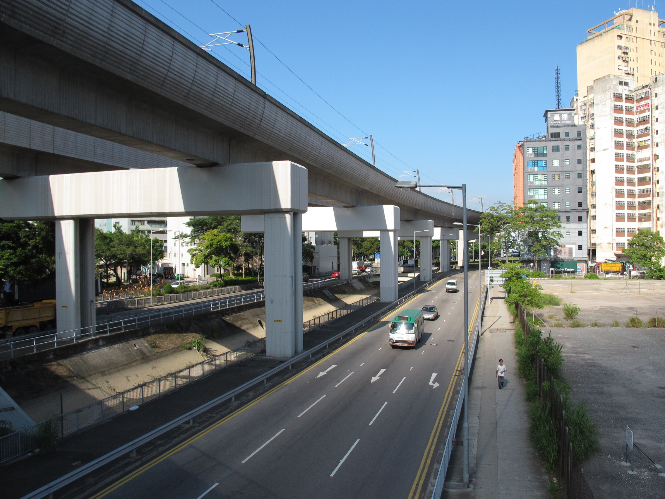 On Lok Road